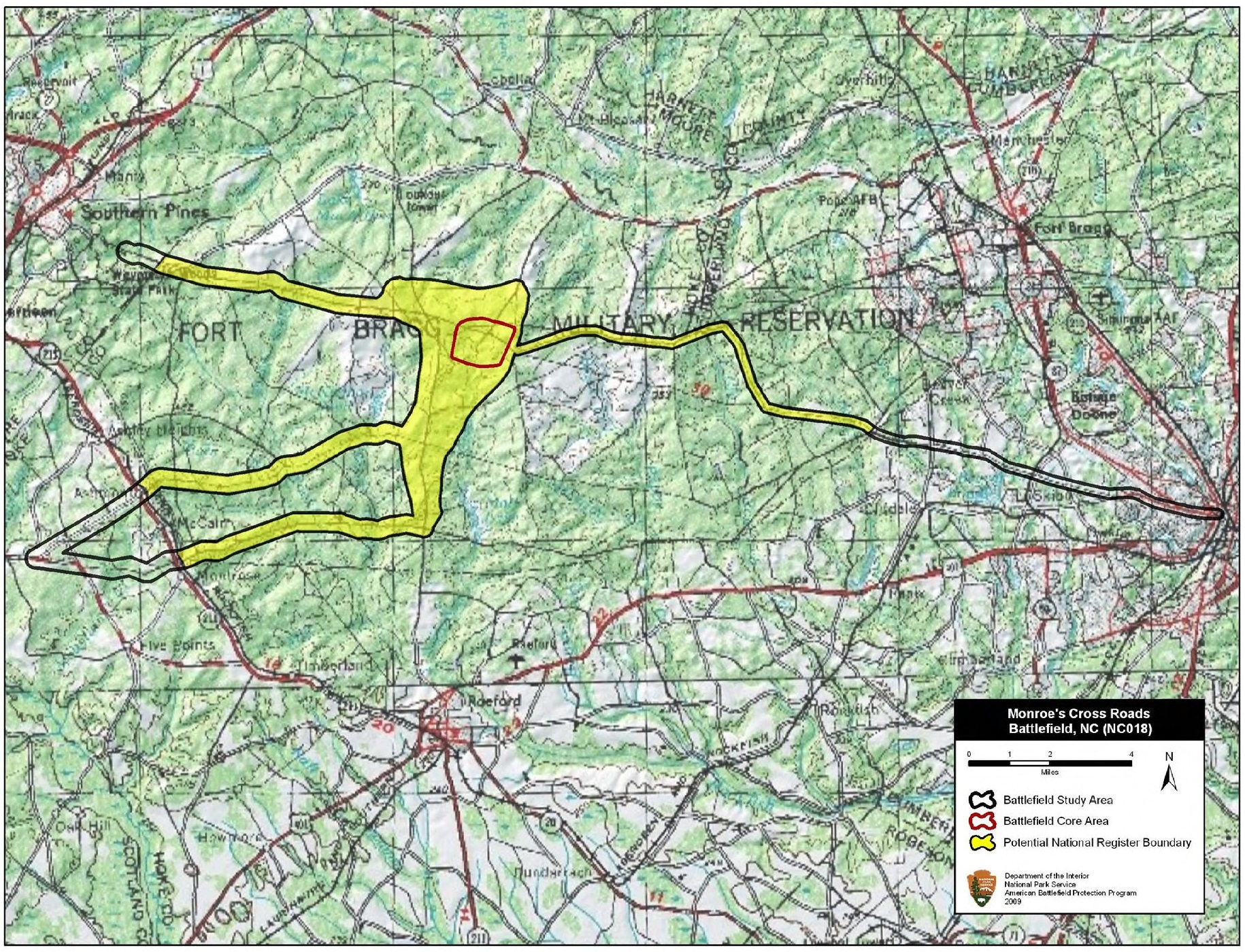 Map of battlefield core and study areas. The revised Study Area reflects the advance of Union scouts from the southwest and the Confederate routes of advance and retreat toward Fayetteville.